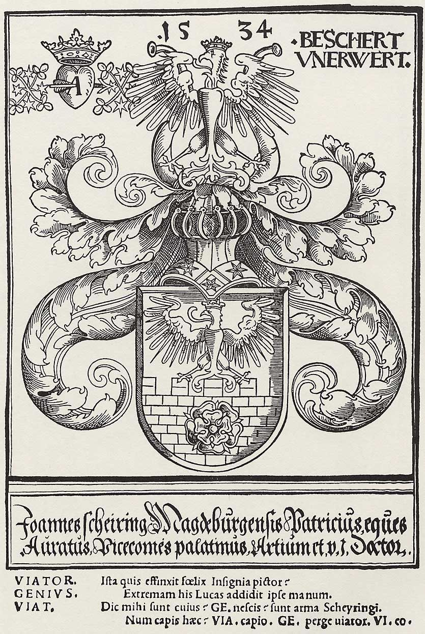 Coat of Arms of Johannes Scheyring (xylography by Lucas Cranach the Elder)